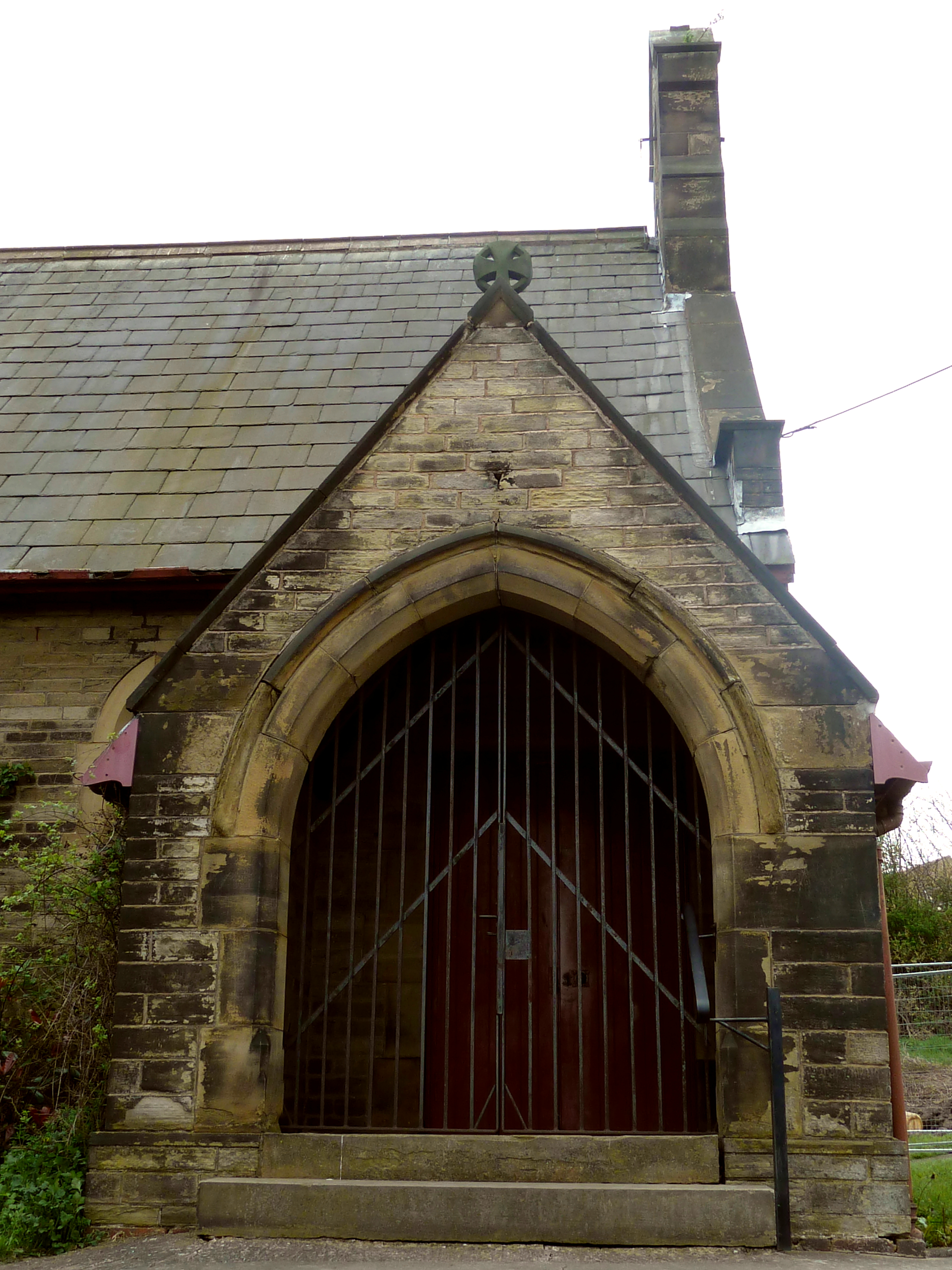 Church of St John the Divine, Calder Grove, Wakefield, West Yorkshire, England. Designed in 1892 by William Swinden Barber. Showing north porch.